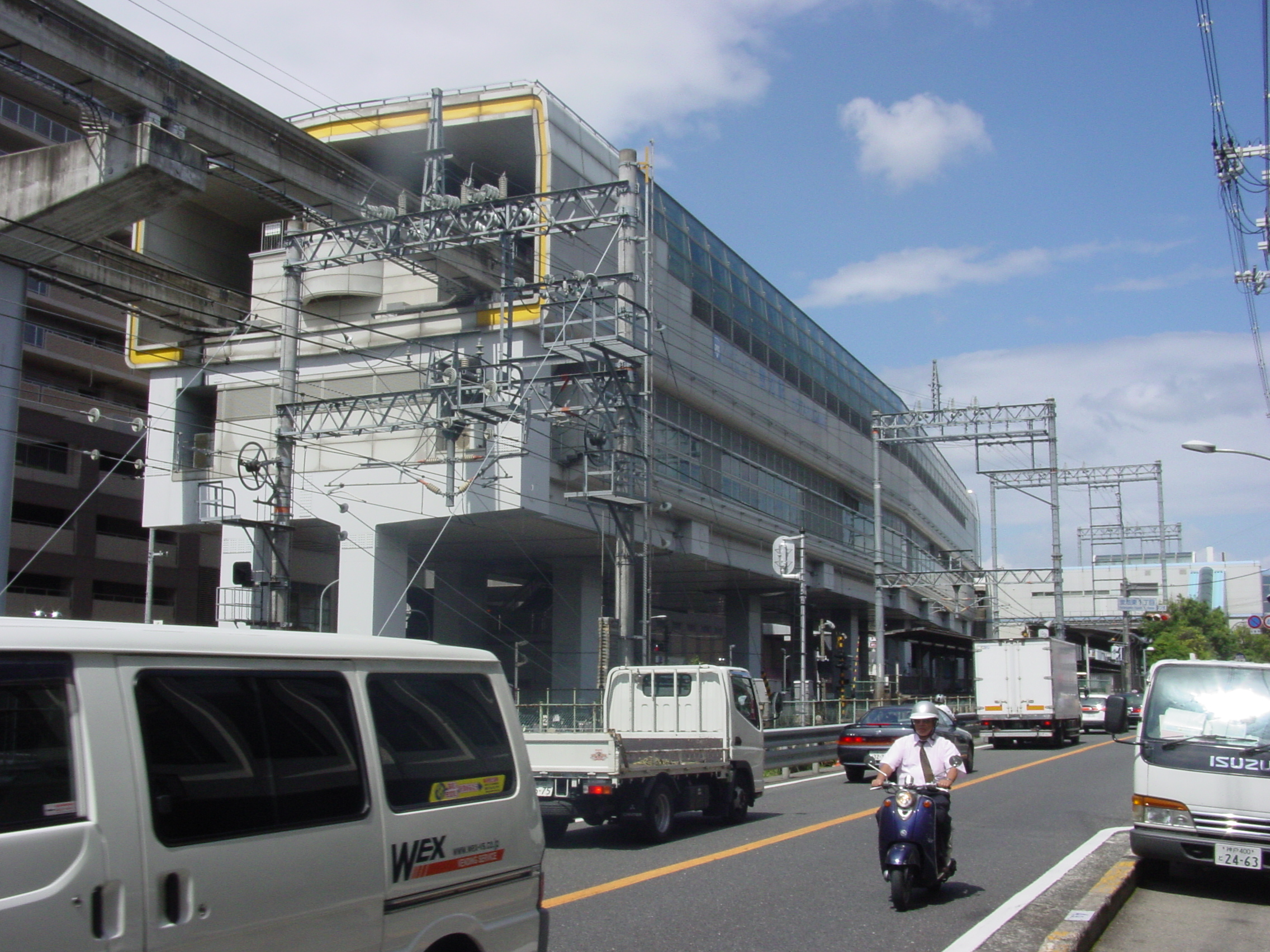 Here photographed is a Hotarugaike station of Osaka Monorail.